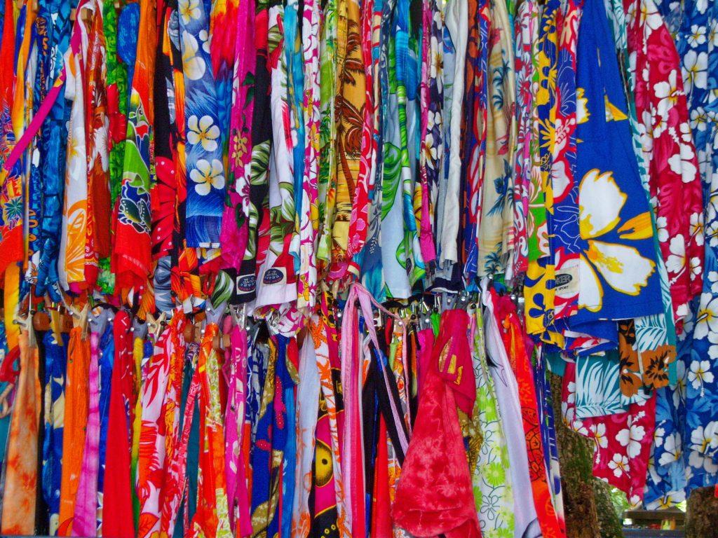 A range of colourful creole skirts for sale at Market, Victoria, Seychelles.